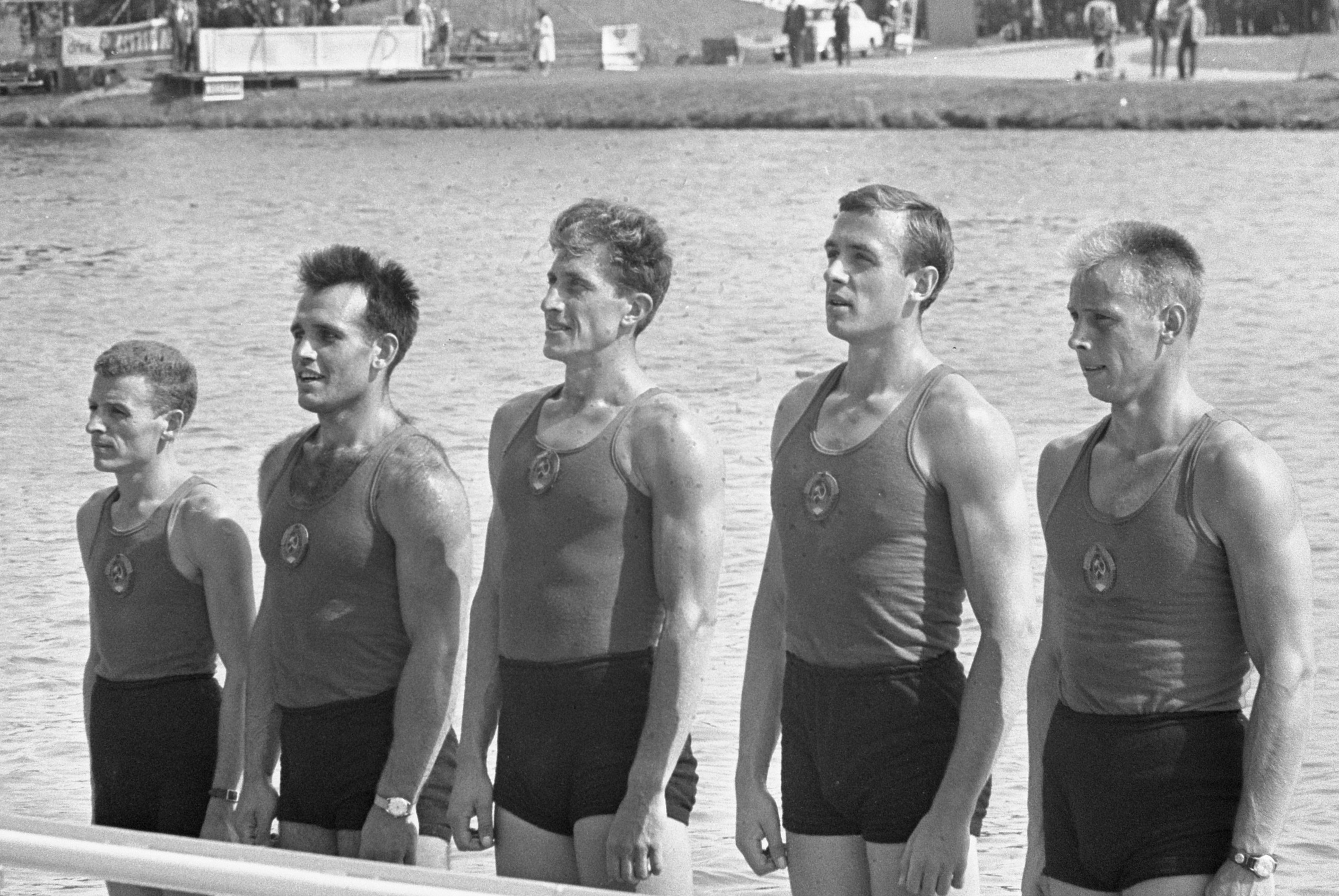 Luzgin, Yevseyev, Tkachuk, Kuzmin and Kurdchenko at the 1964 European Championships